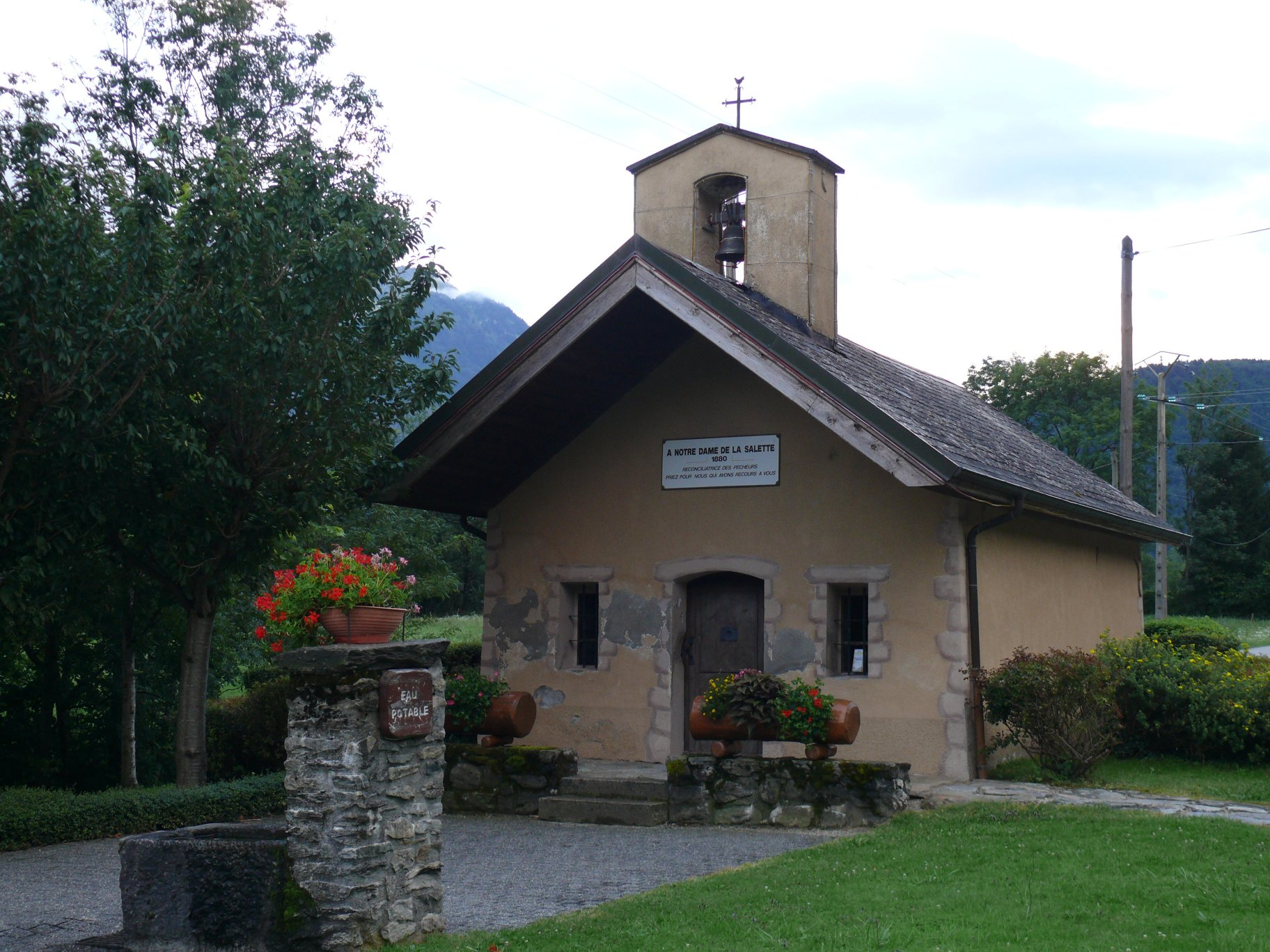 Notre-Dame-de-la-Salette's chapel of Saint-Alban-d'Hurtières (Savoie, Rhône-Alpes, France).